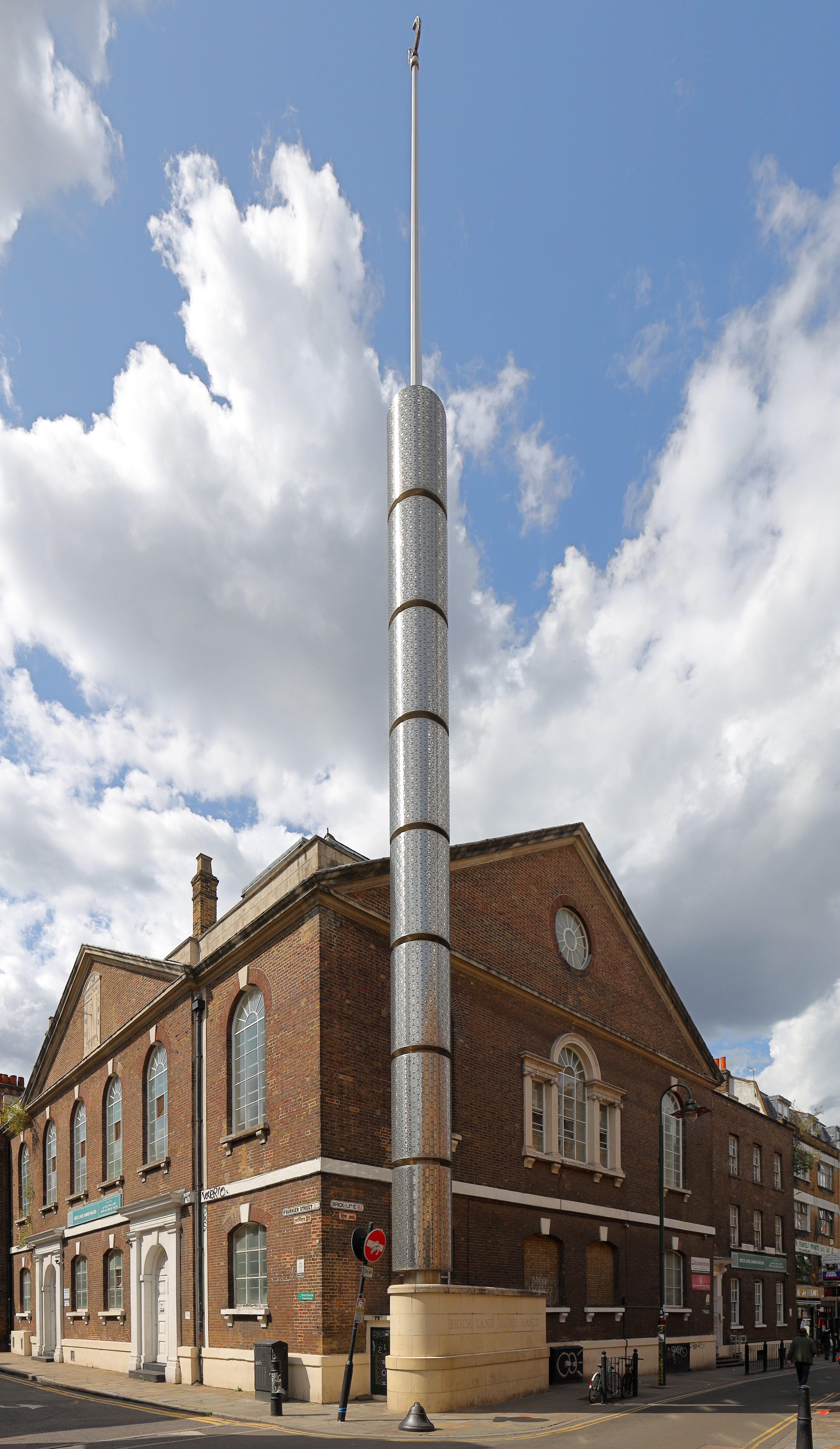 Brick Lane Jamme Masjid in Tower Hamlets, London.